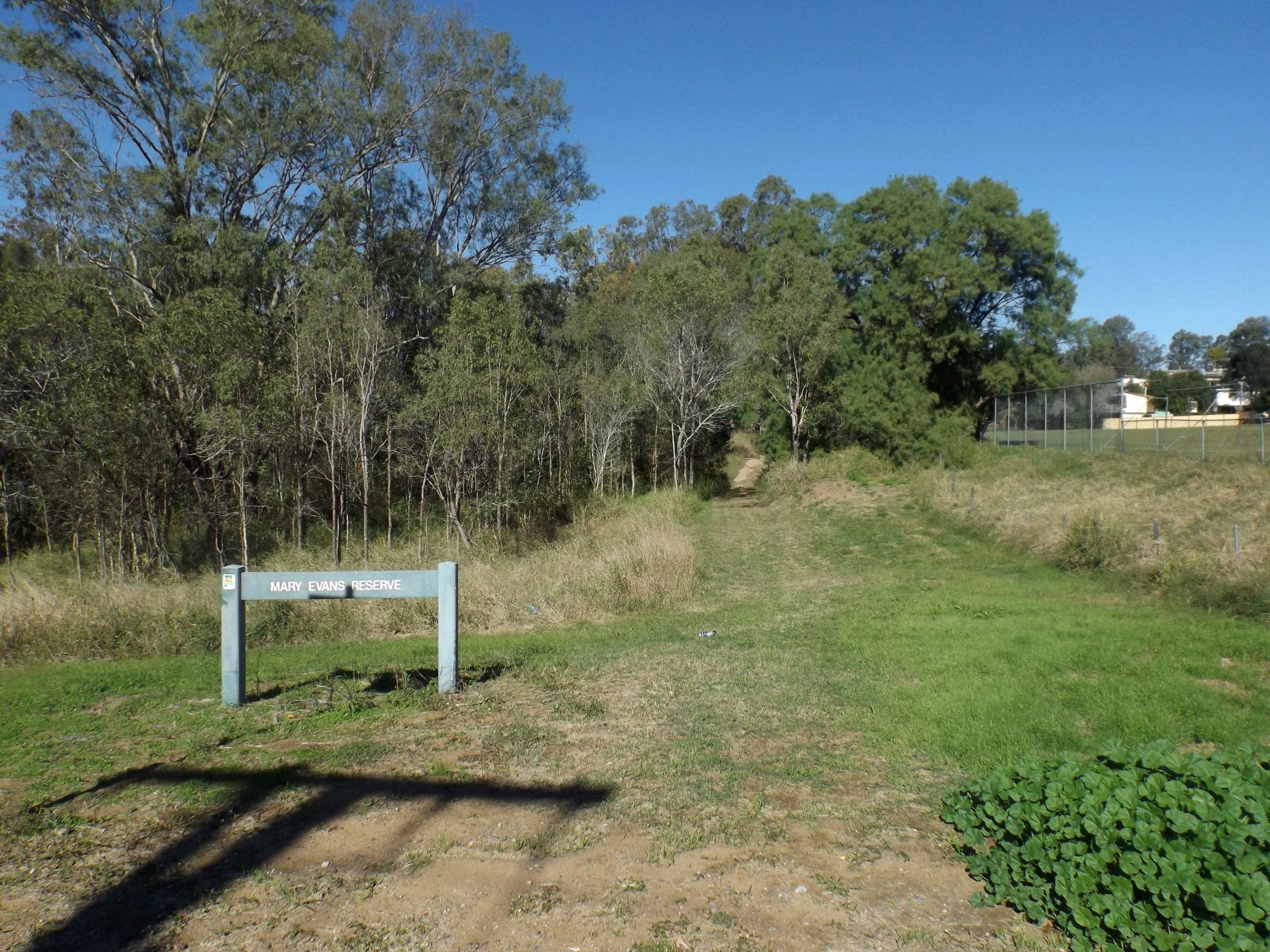 Photo of Mary Evans Reserve at Churchill, City of Ipswich, Queensland, Australia.